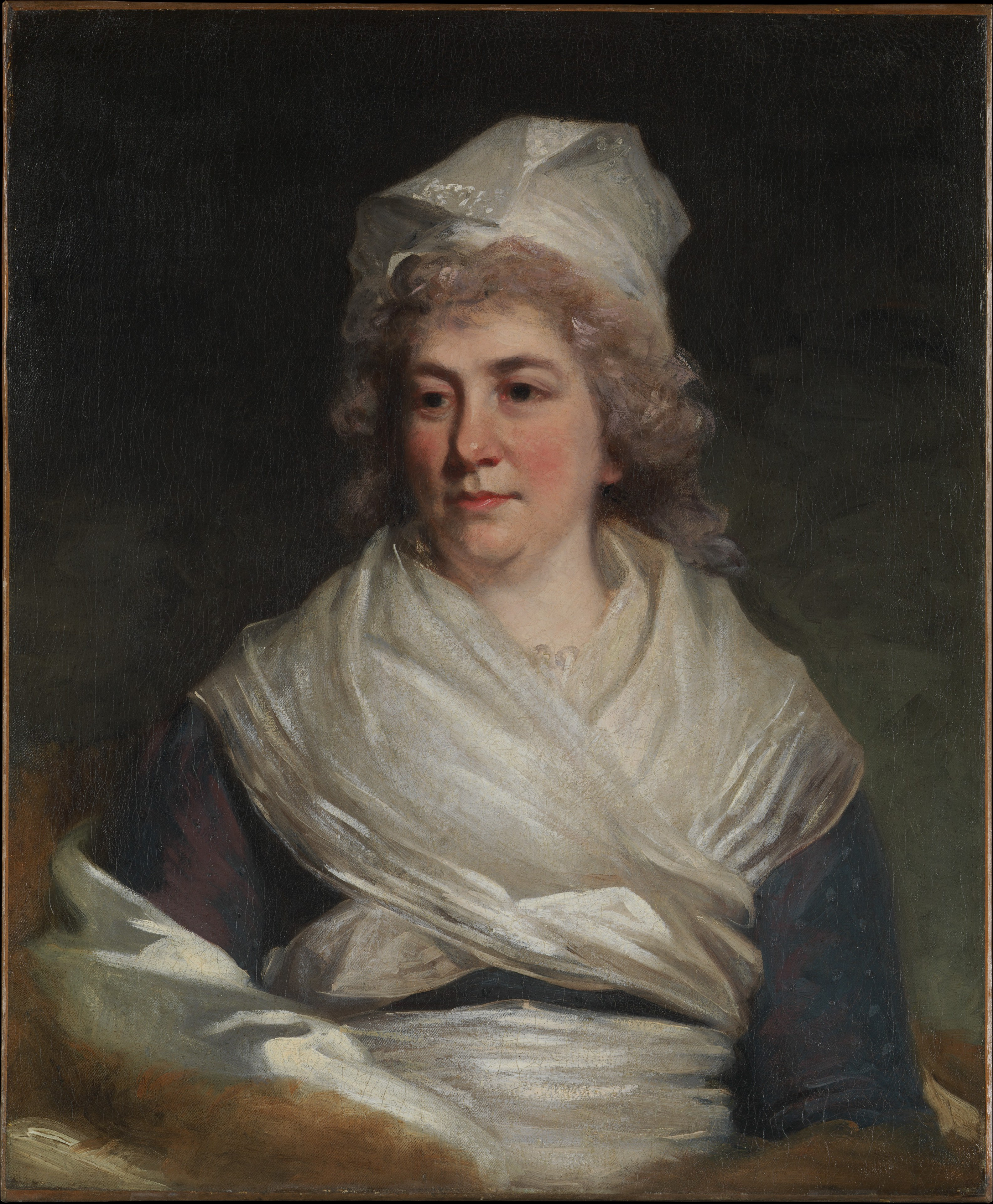 Mrs. Richard Bache (Sarah Franklin, 1743–1808) Artist: John Hoppner (British, London 1758–1810 London) Date: 1793 Medium: Oil on canvas Dimensions: 30 1/8 x 24 7/8 in. (76.5 x 63.2 cm) Classification: Paintings Credit Line: Catharine Lorillard Wolfe Collection, Wolfe Fund, 1901